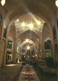 Tabriz Bazar